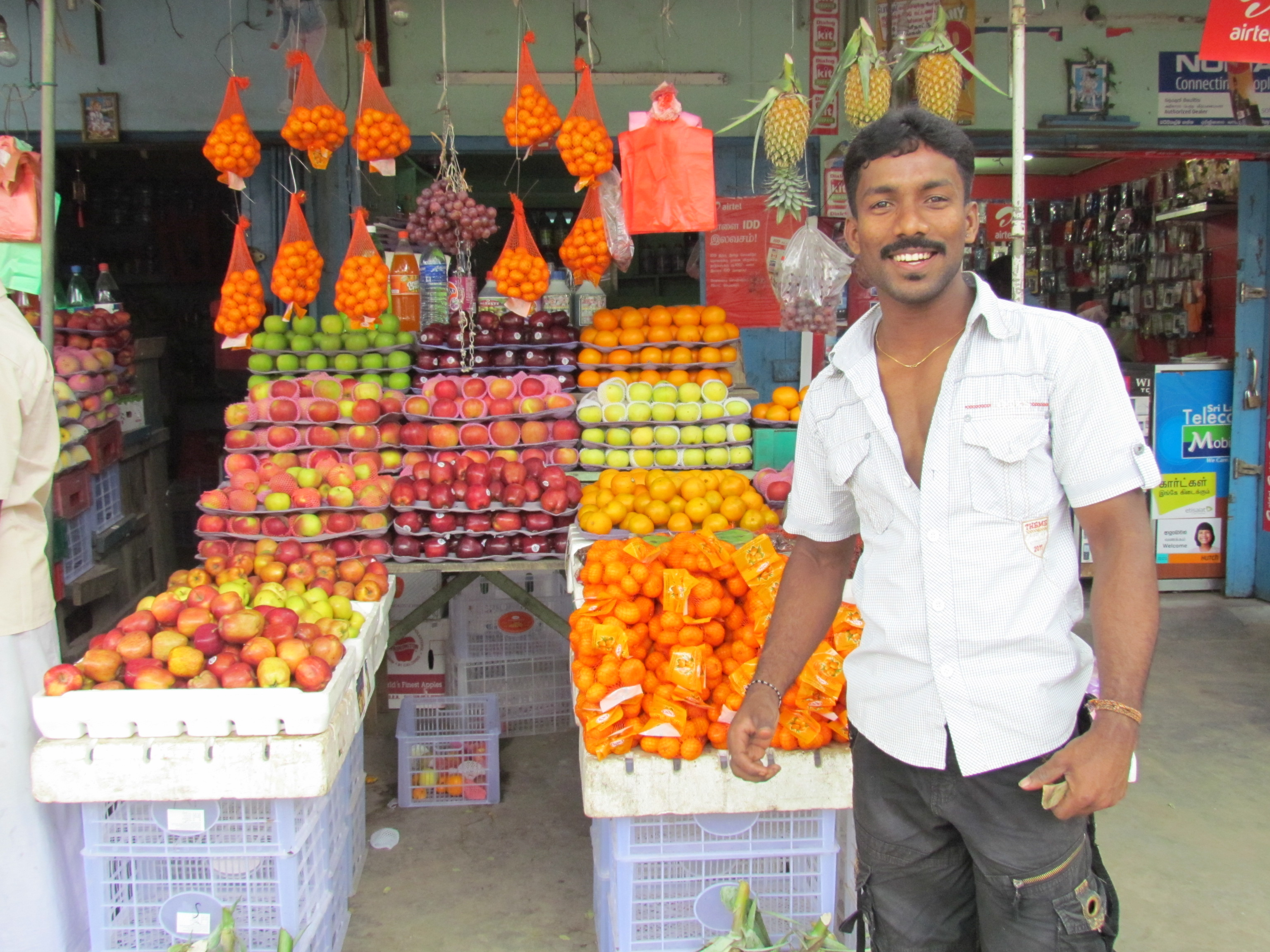 A visit to the market in Jaffna city centre on Tuesday 6 December, 2011.